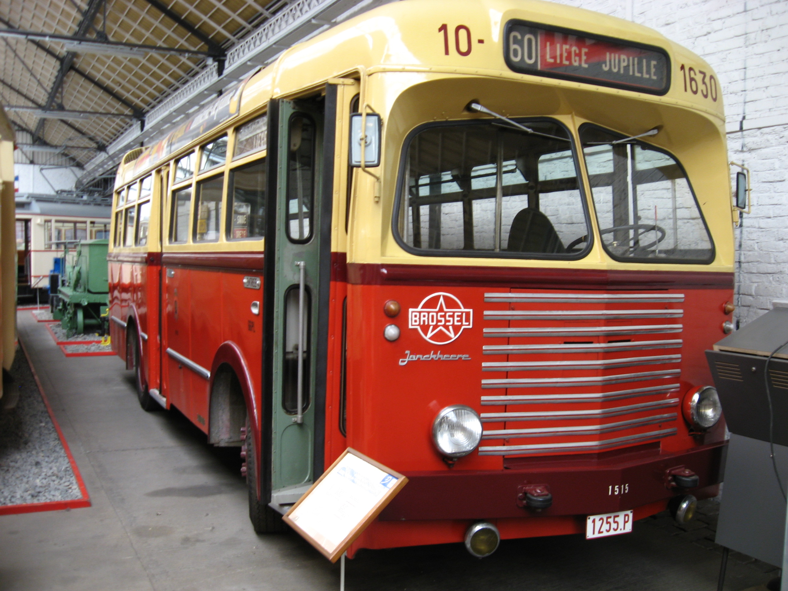 SNCV bus from 1957. Jonckheere-bodied Brossel chassis with a 102cv Leyland diesel engine, this shorter bus was intended for local routes. 8.885m long on a 4.15m wheelbase, 2.49m wide and 7000kg. Seats 26, 40 standing passengers. Became a recovery truck in 1965 and was decommissioned in 1978.